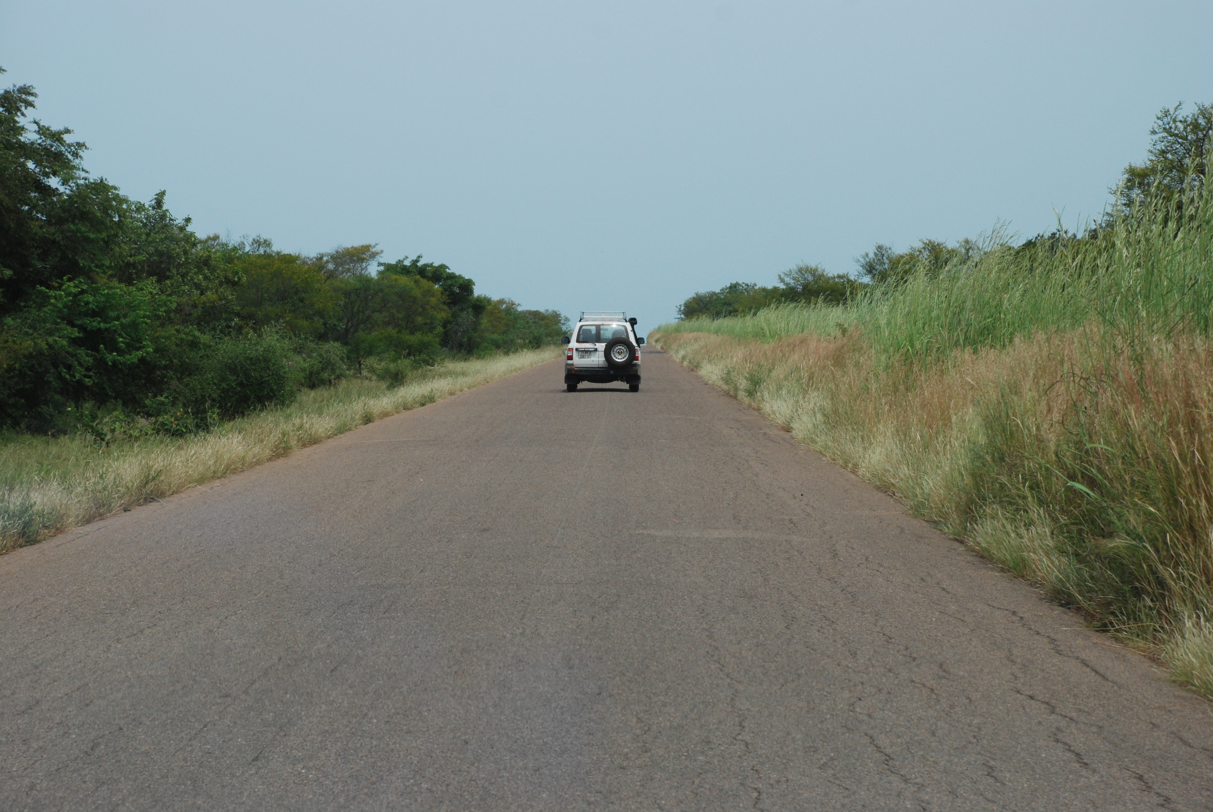 Reserve partielle de Pama, Burkina Faso, West Africa - road to Benin is border of NP: right hand side reserve, left hand side no reserve)